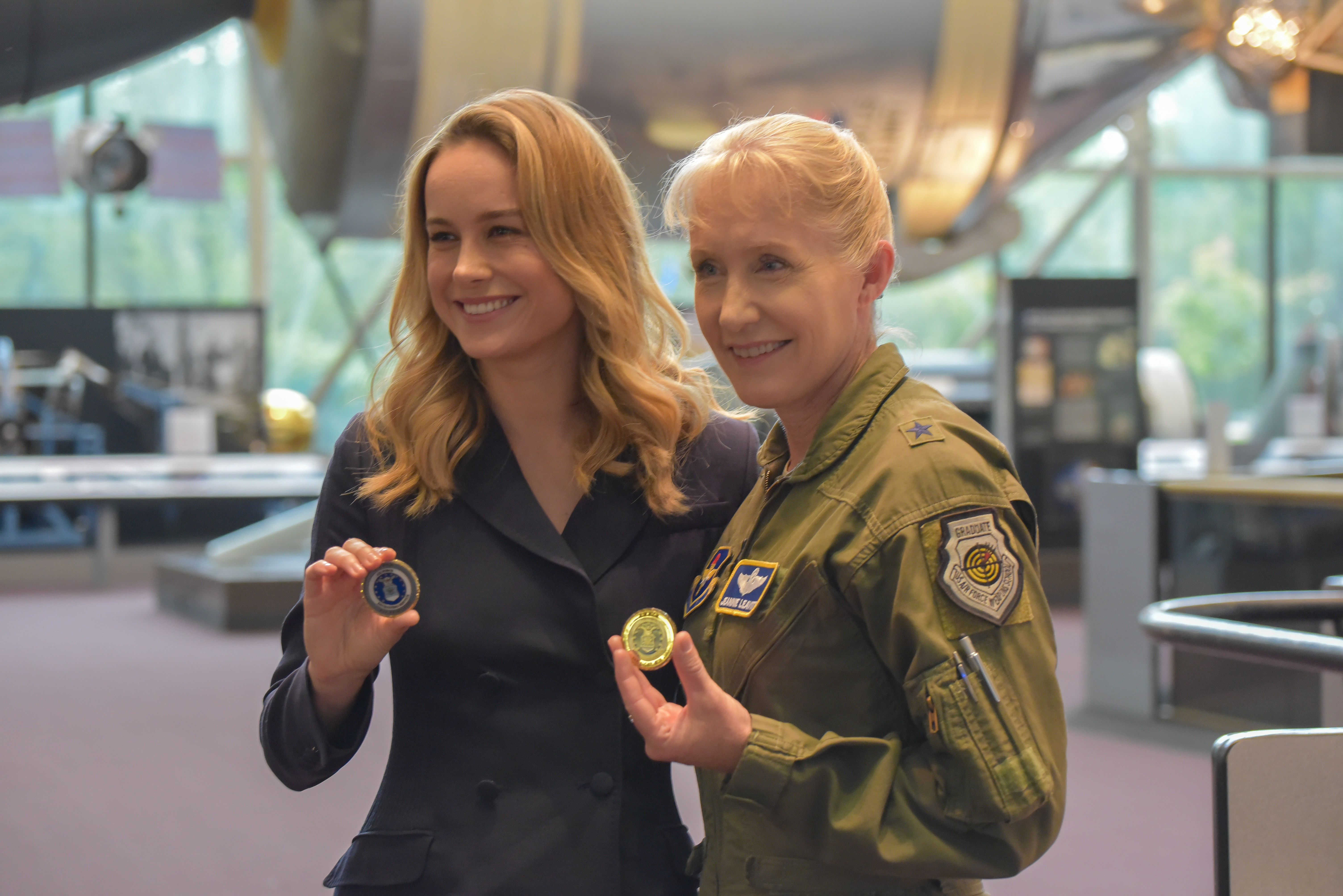 AFDW Airmen celebrated the U.S. Air Force 71st birthday by attending a special live screening of Captain Marvel at the National Air and Space Museum, Smithsonian Institution, hosted by Good Morning America Sep. 18, 2018. When preparing for Captain Marvel, actress Brie Larson met with Brig. Gen. Jeannie Leavitt, the Air Force's first female fighter pilot, to research her character. As the first female character to headline a Marvel franchise, Capt. Carol Danvers exemplifies the barrier-breaking spirit found in every generation of Airmen going back to 1947. (United States Air Force photo by 2d Lt Jessica Cicchetto)(Released)